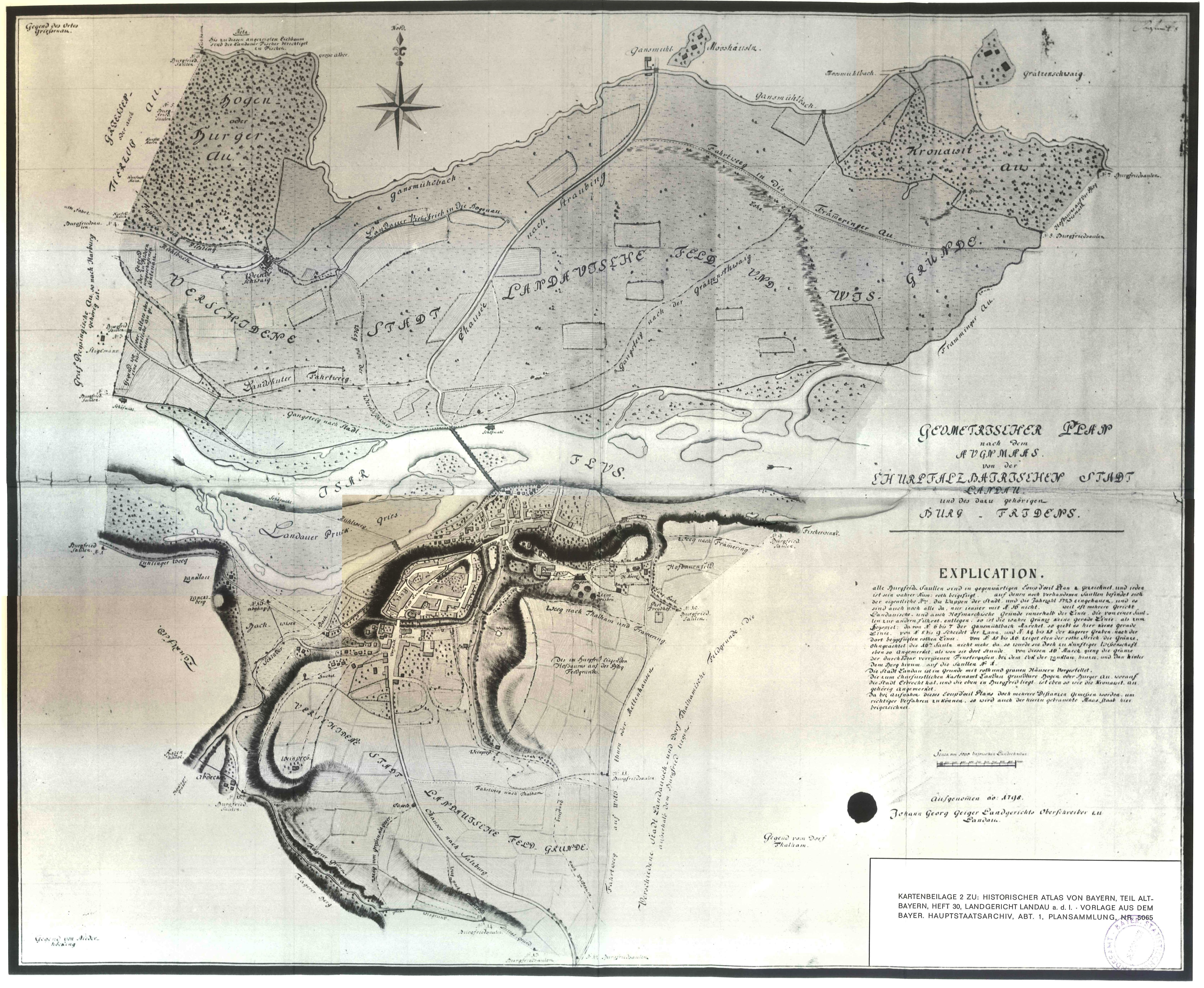 Plan of Landau an der Isar (Lower Bavaria, Germany) and environs